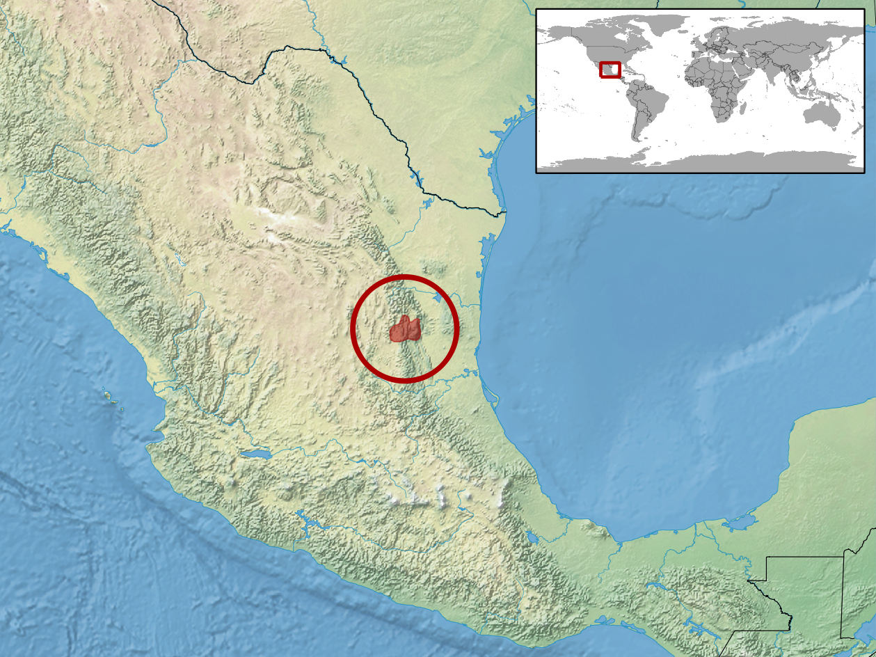 geographic distribution of Xenosaurus platyceps (Native: Mexico)